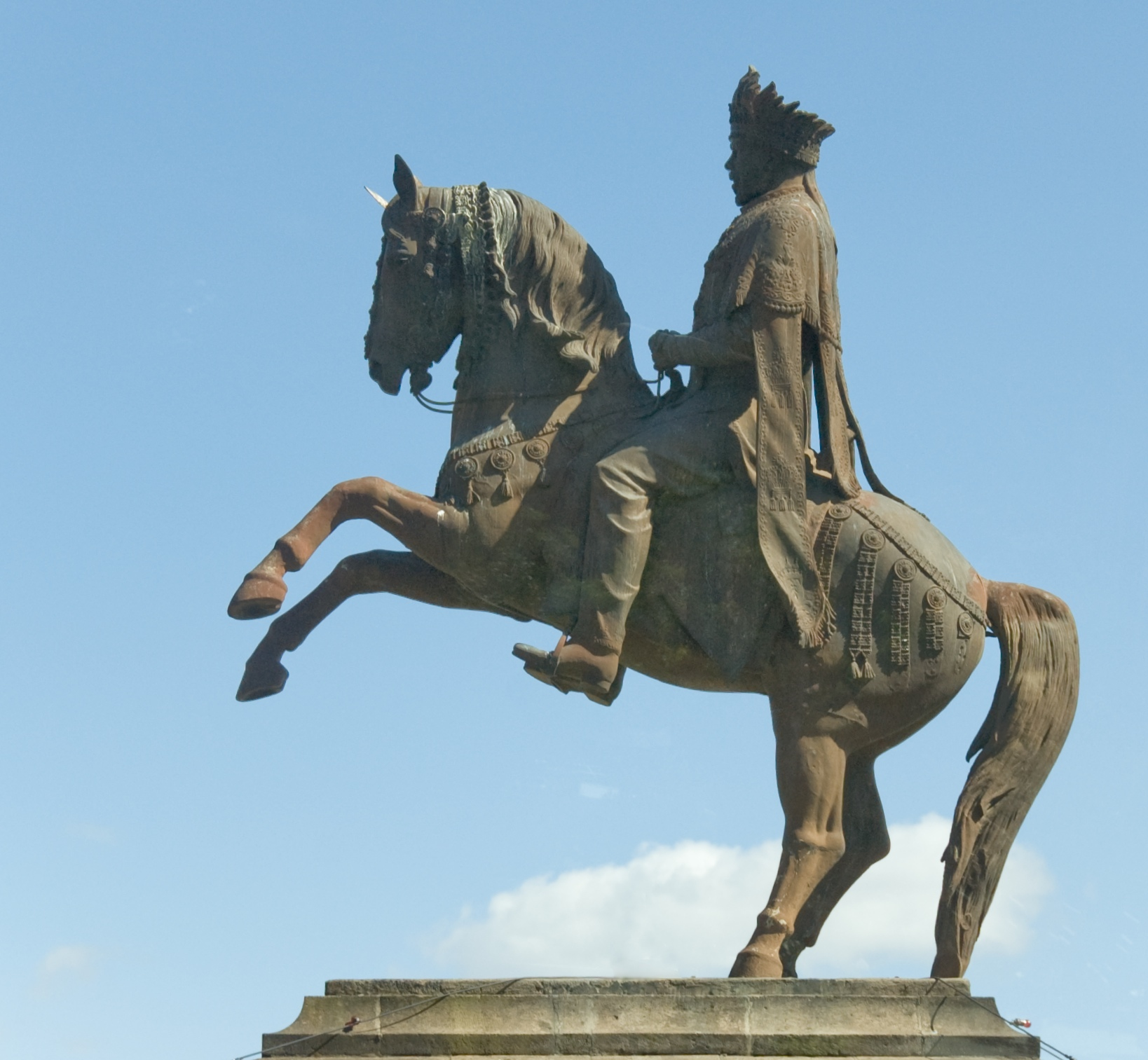 According to the website "In Menelik II Square stands the imposing equestrian statue of Emperor Menelik II, the victor of Adowa. The statue was erected by Emperor Haile Selassie and dedicated on the day before his coronation in 1930, in memory of his great predecessor. The square is located outside the main gates of St. George Cathedral (Genete Tsige Menagesha Kidus Giorgis), and is close to City Hall. The distance markers on all the highways in Ethiopia mark the distance to their location from the base of the statue of Emperor Menelik II in this Square. Every year, on the anniversary of the victory of the Battle of Adowa, the Emperor would lay a wreath at this statue after attending mass at St. George Cathedral (the victory had occured on St. George's Day). Col. Mengistu continued laying a wreath here on the anniversary, but did not attend the church services as his regime was Marxist."